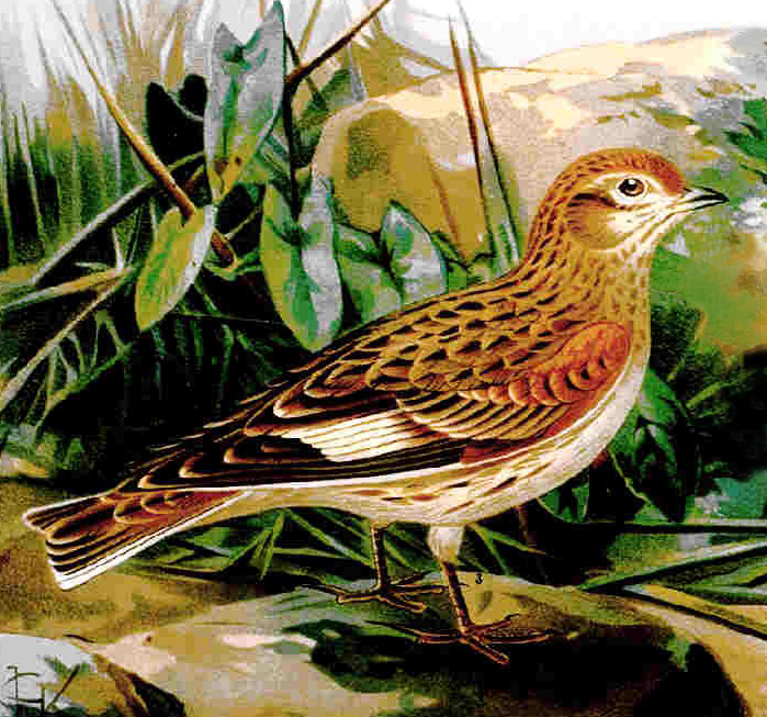 White-winged lark Melanocorypha leucoptera from NAUMANN, NATURGESCHICHTE DER VÖGEL MITTELEUROPAS: Band III, Tafel 1 - Gera, 1900